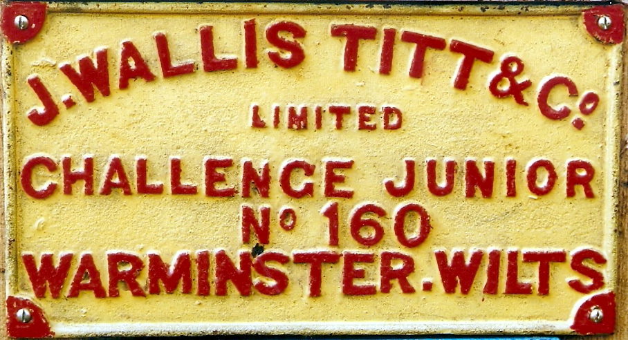 Identification plate for (unidentified) equipment manufactured by John Wallis Titt, seen at a steam rally in Wiltshire